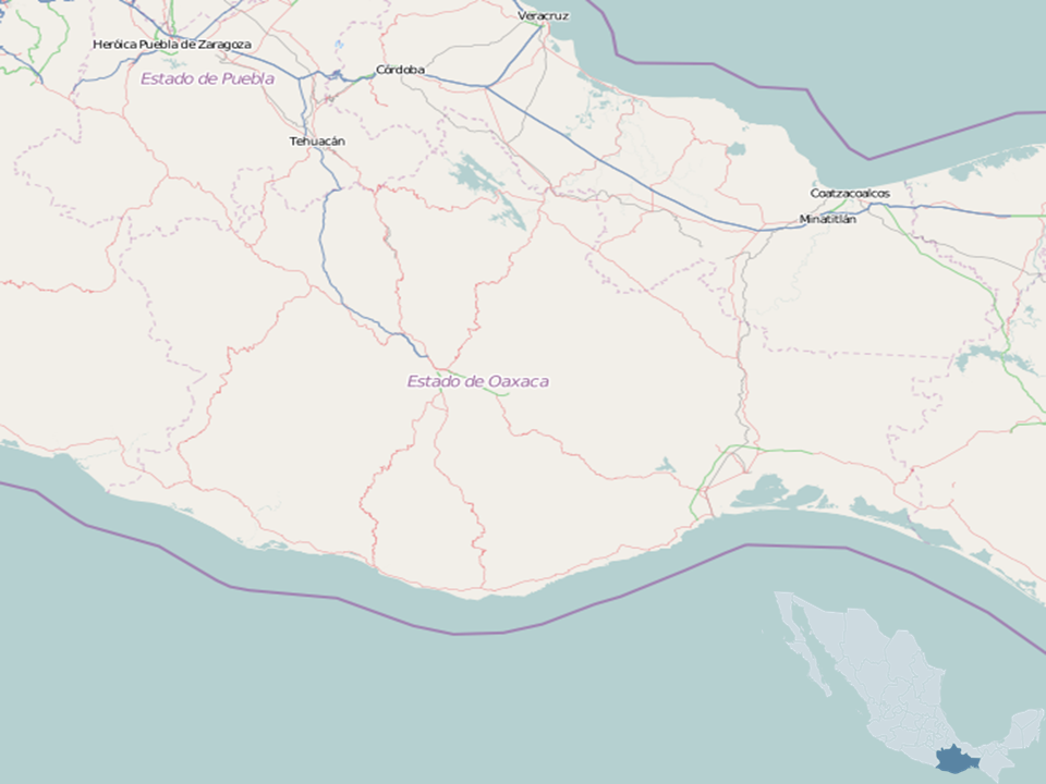 Map of Oaxaca Geographic limits of the map: N: 19.3° S: 14.53° W: -99.15° E: -93.35°